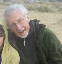 Picture of Professor Gordon Hillman